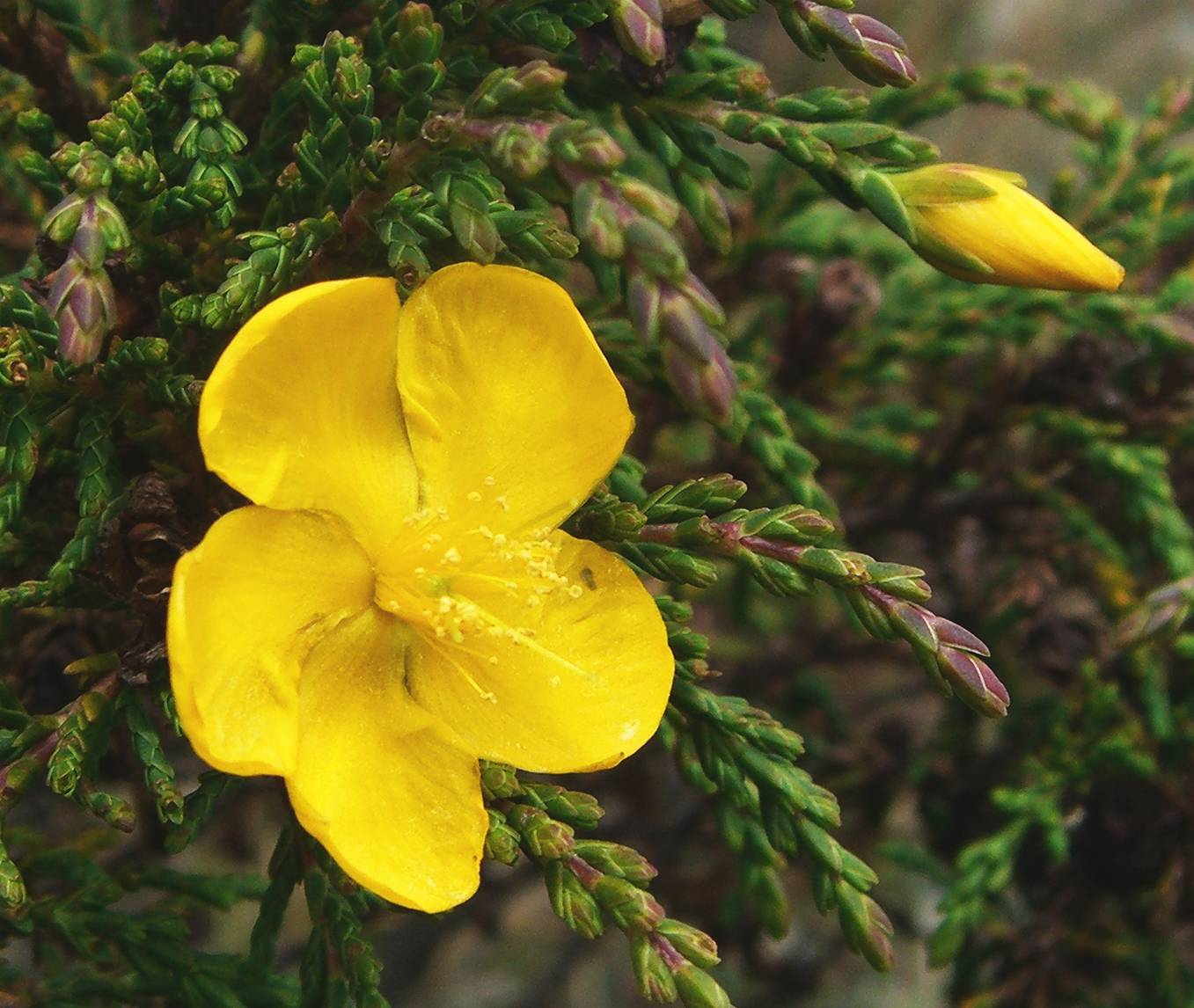 Please report references to .